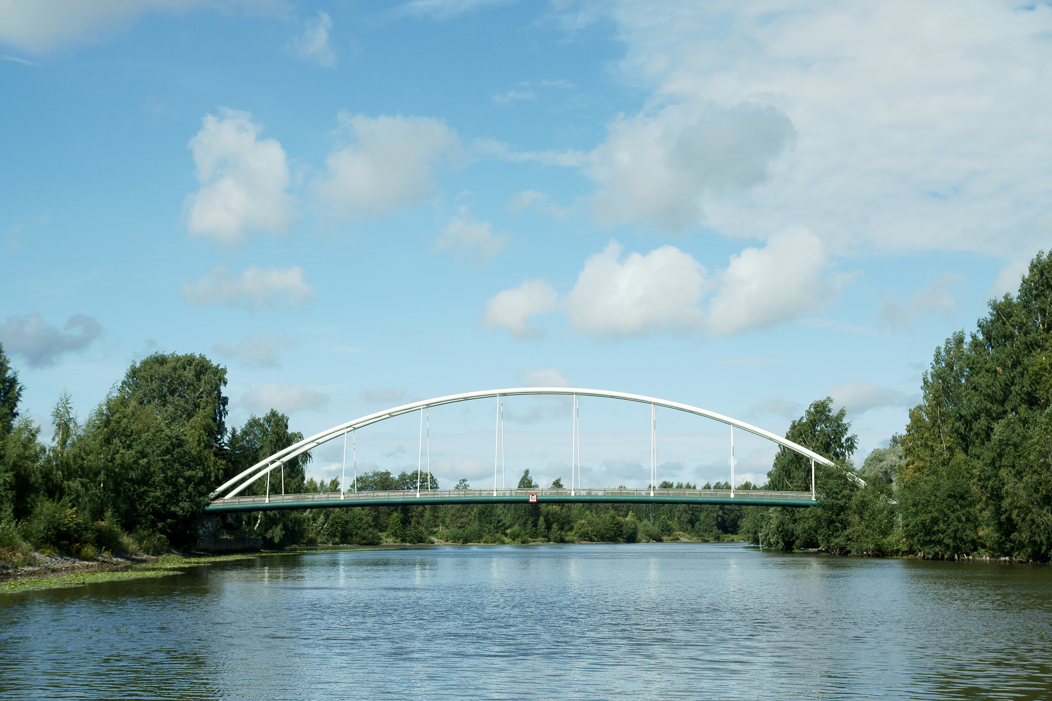 The bridge of Pormestarinluoto in Pori, Finland.